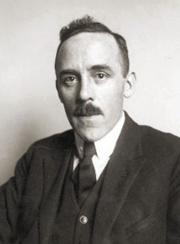 Jerzy Czeszejko-Sochacki, Polish politician, Socialist, later Communist. Member of Polish Sejm. Later emigrated to USSR, arrested by NKVD, commited suicide